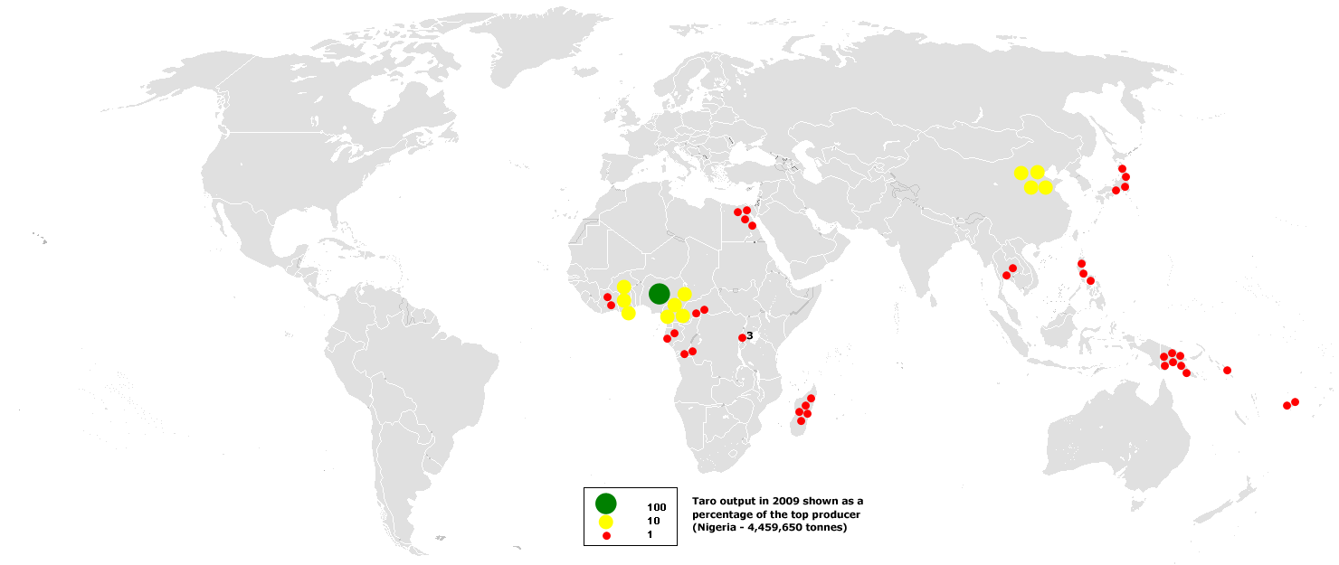 This bubble map shows the global distribution of taro output in 2009 as a percentage of the top producer (Nigeria - 4,459,650 tonnes). This map is consistent with incomplete set of data too as long as the top producer is known. It resolves the accessibility issues faced by colour-coded maps that may not be properly rendered in old computer screens. Data was extracted on 7th November 2011 from Based on en::Image:BlankMap-World.png